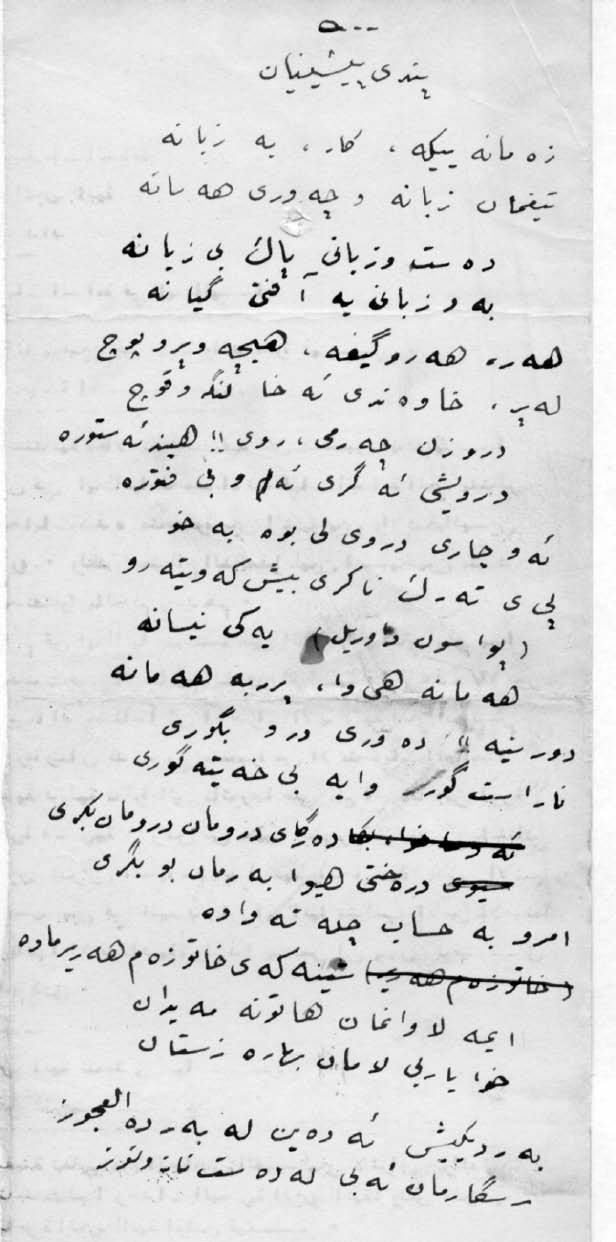 Piramerd hand writing